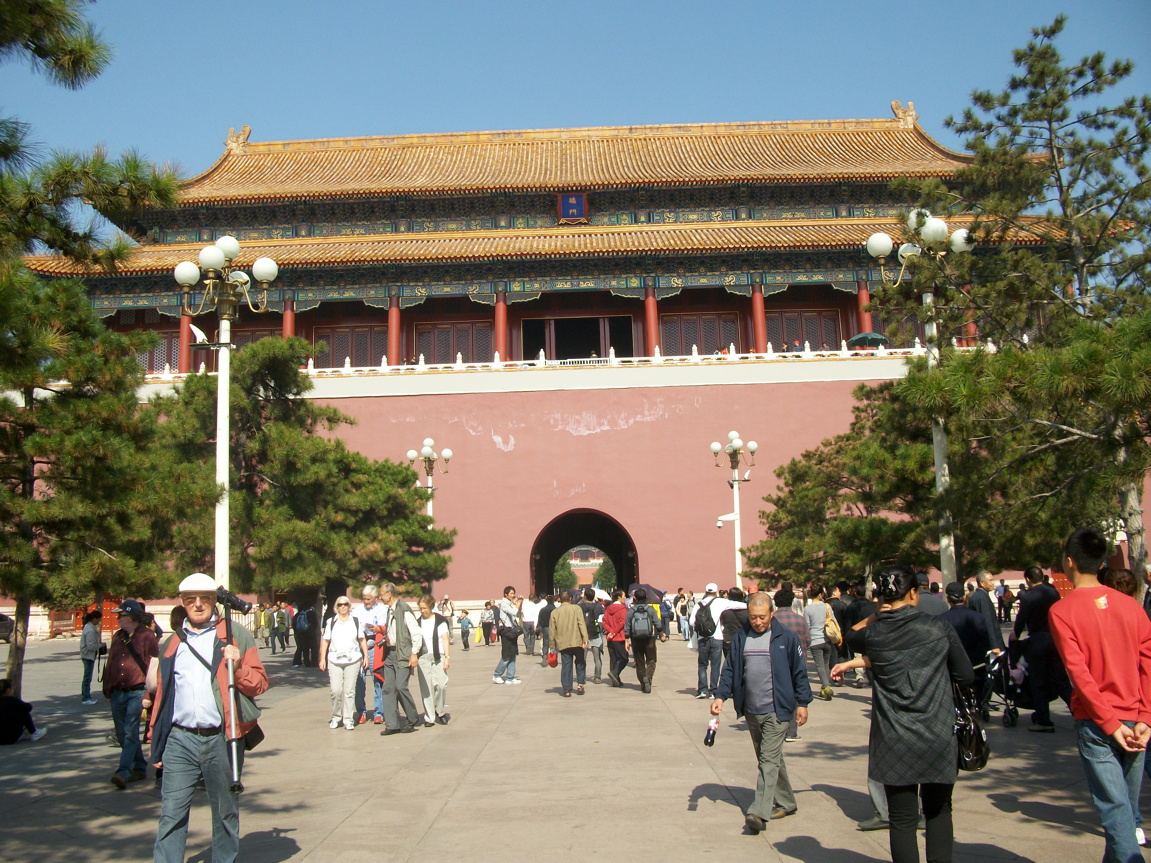 (view N) Gate of Uprightness